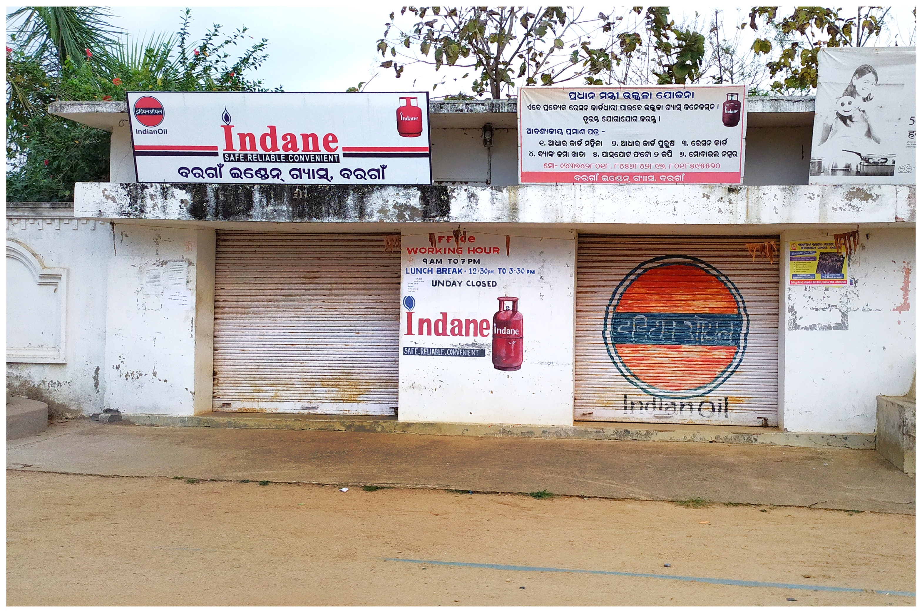 BARGAON Indane Office